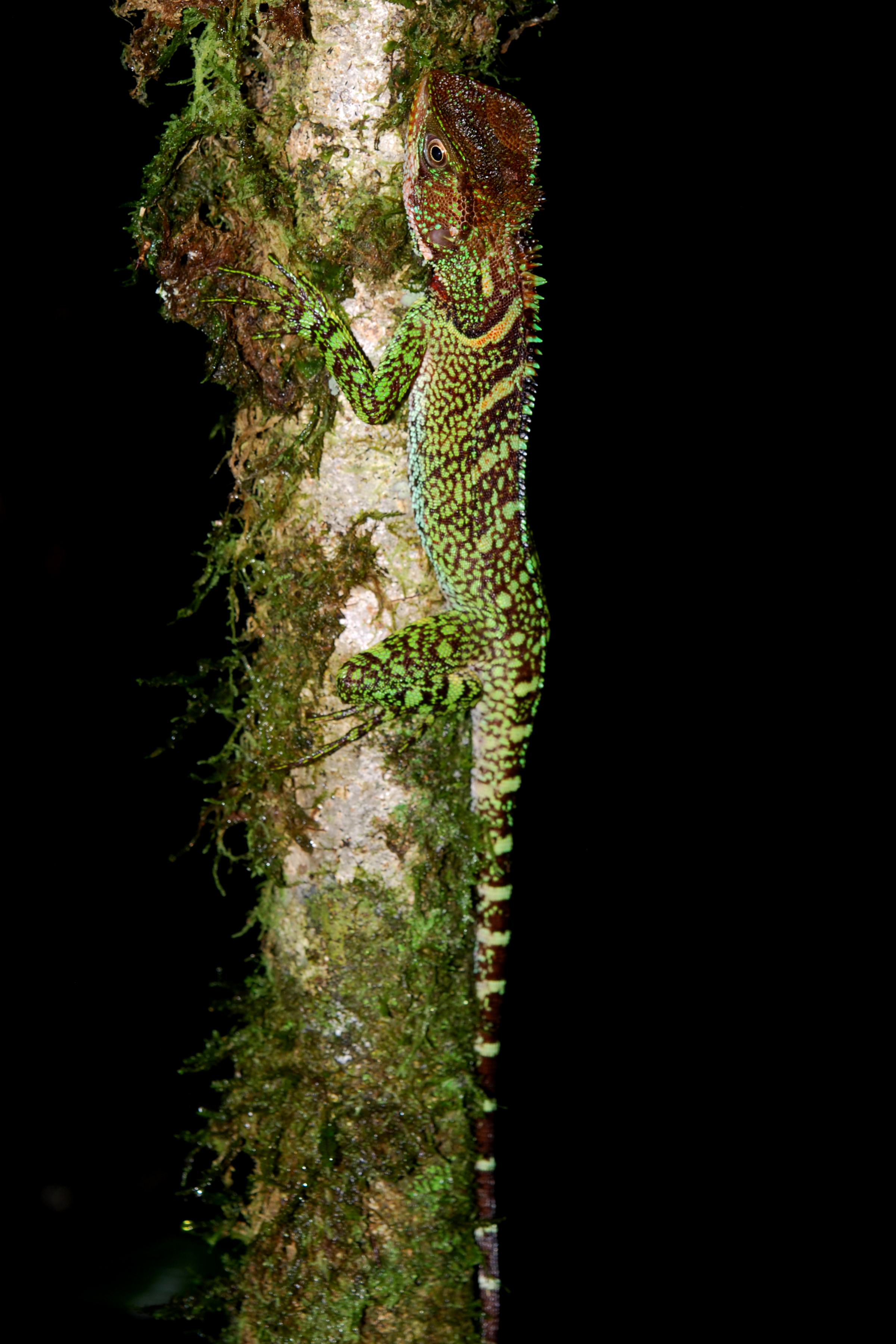 Amazon forest dragon (Enyalioides laticeps) in Yasuní National Park, Ecuador.